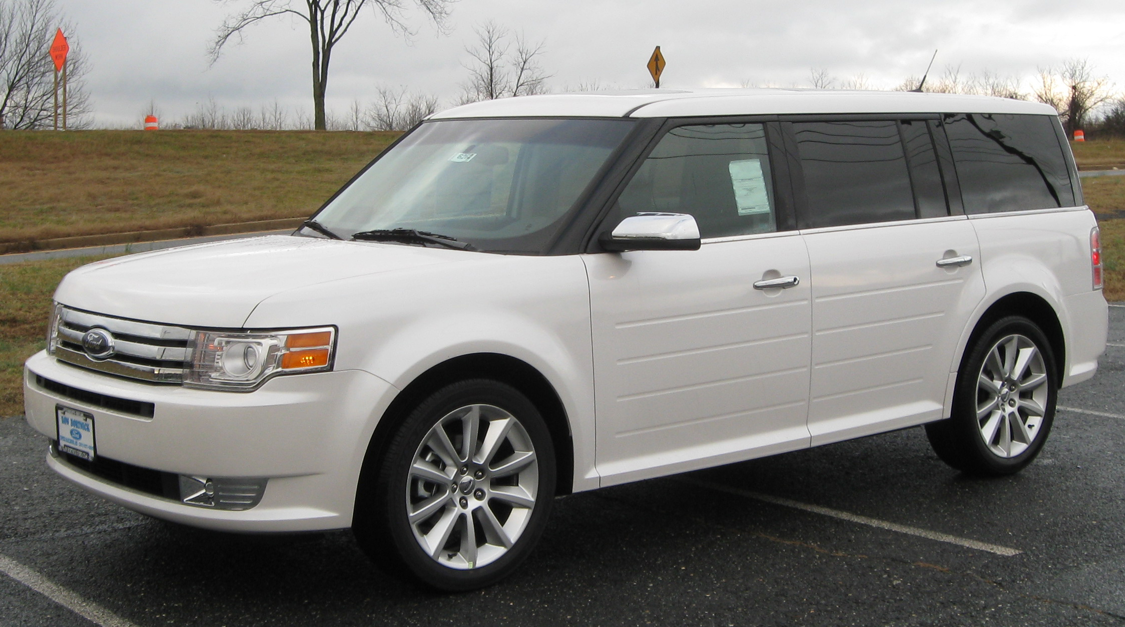 2010 Ford Flex photographed in Upper Marlboro, Maryland, USA.